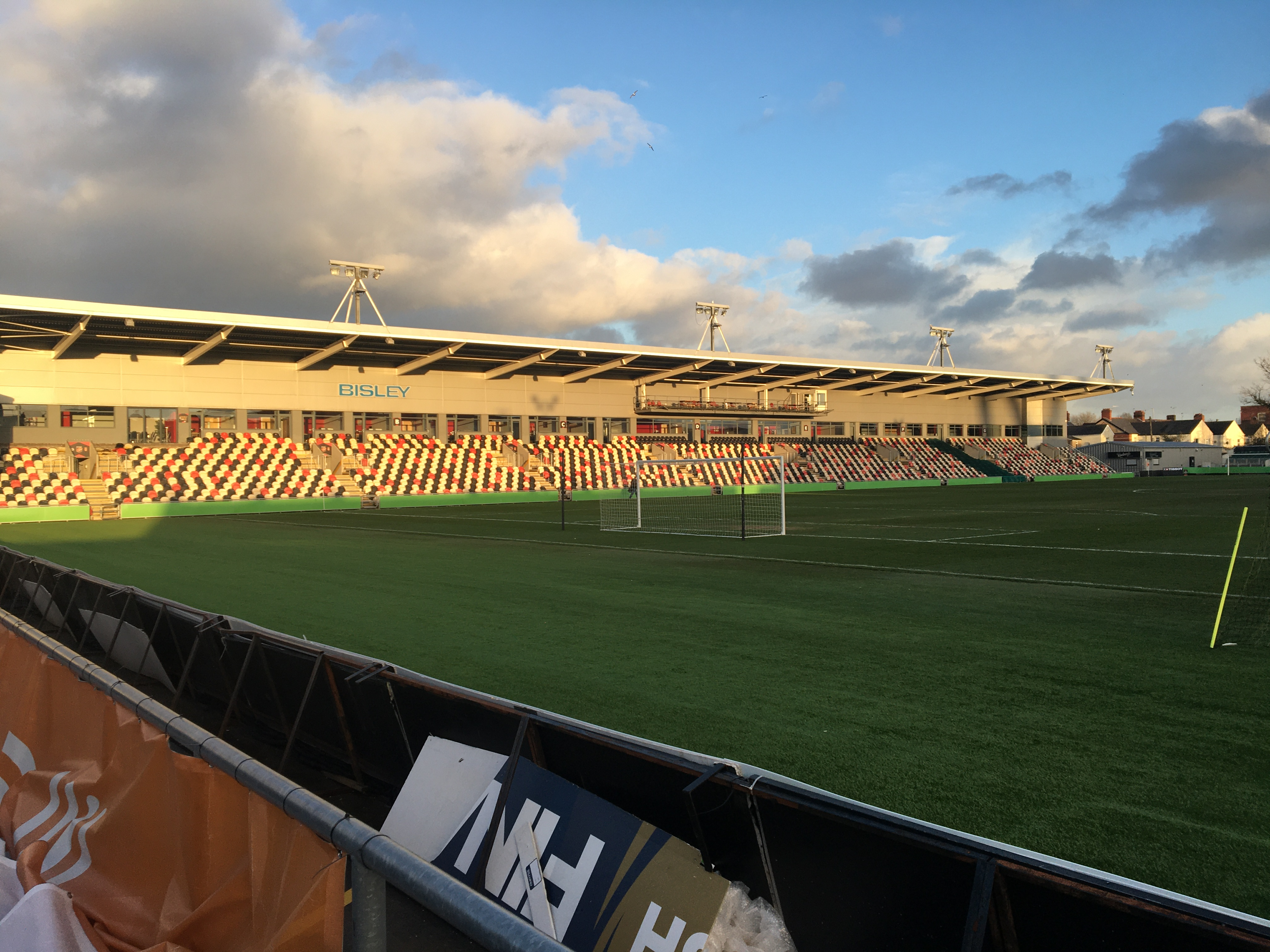 Rodney Parade, Newport